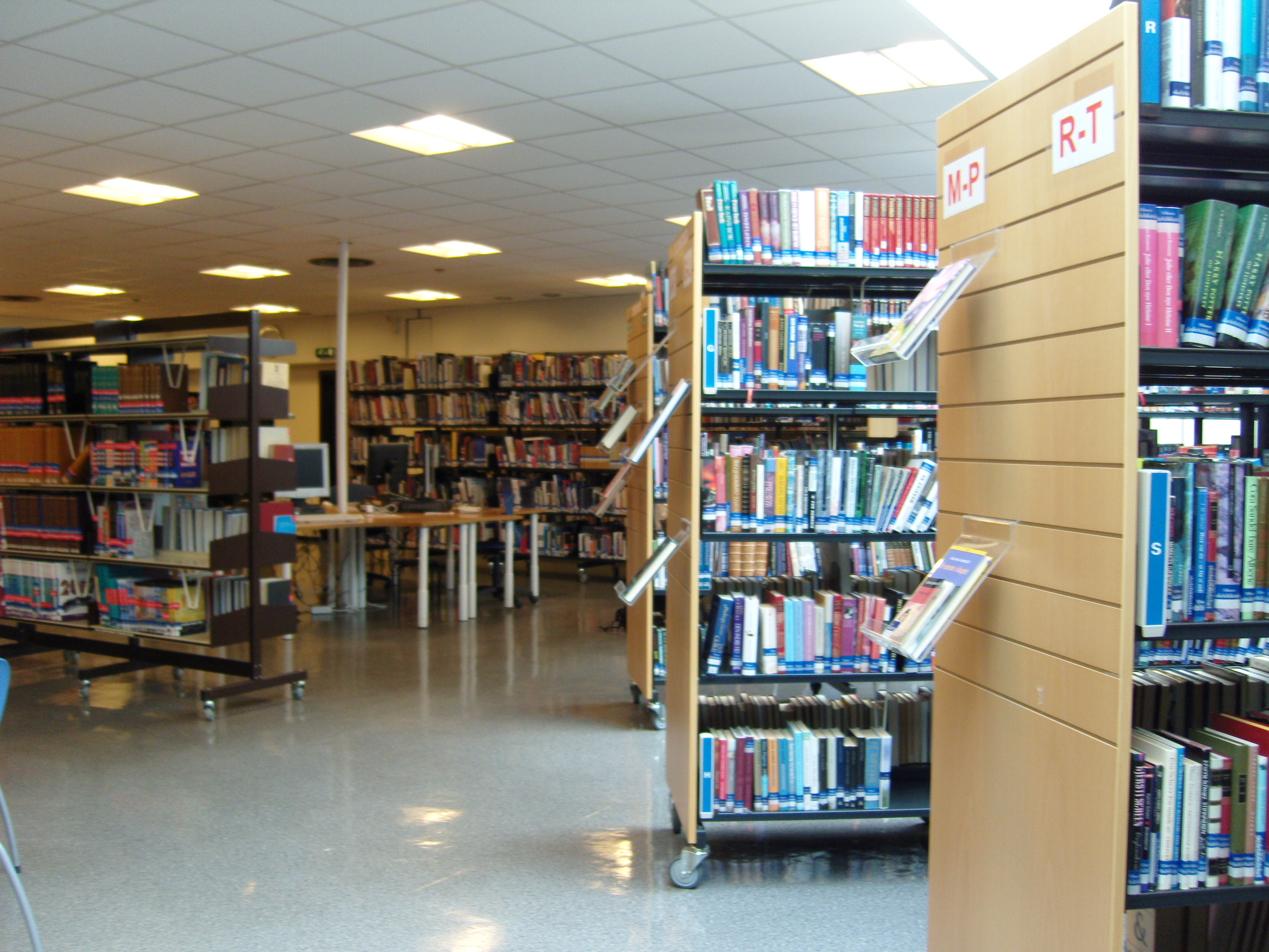 From the school library at St. Olav secondary school, Sarpsborg.